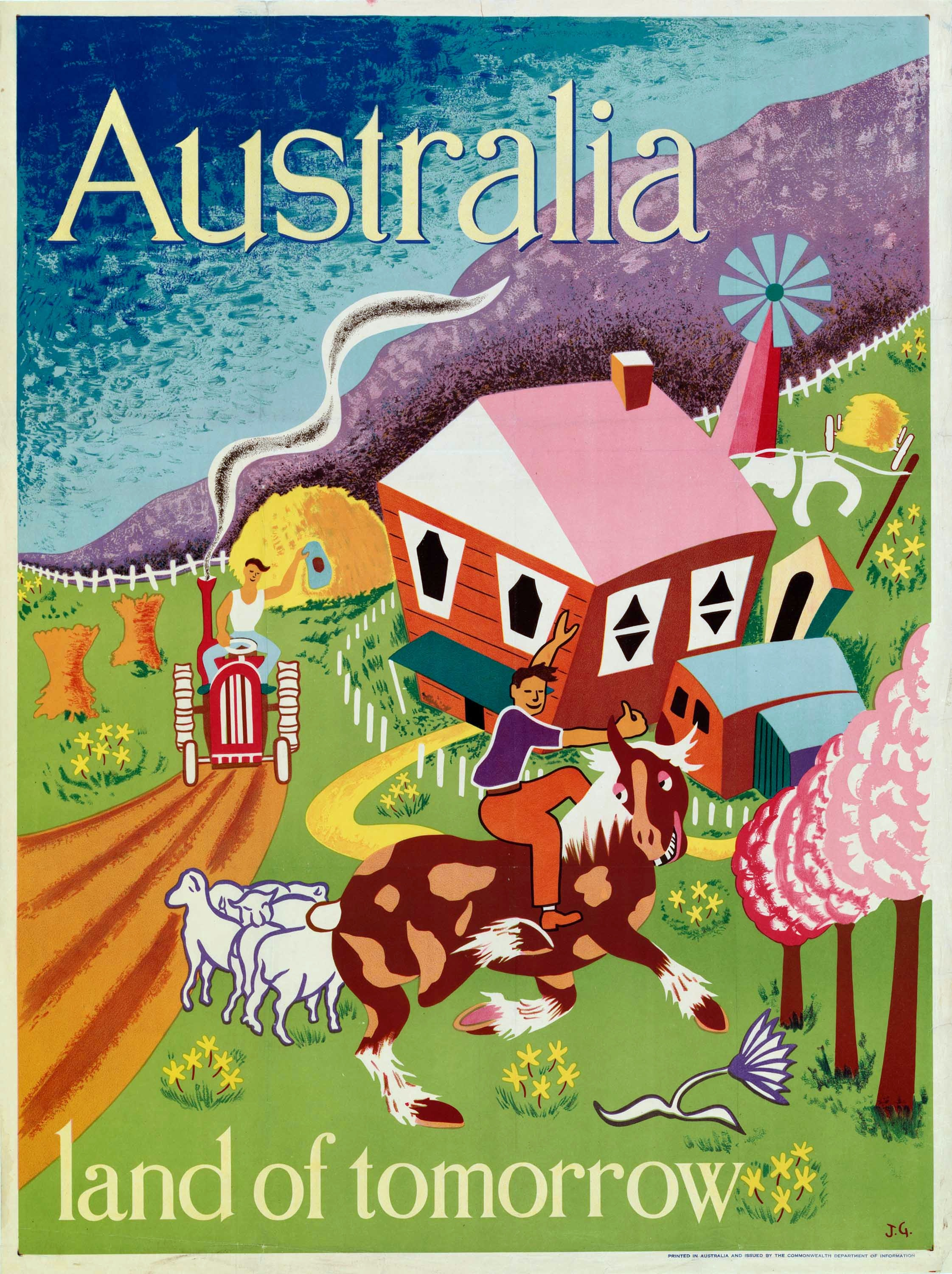 Australian Government poster - "Australia: land of Tomorrow". This poster was displayed between 1949 and 1951 in reception rooms and dining halls at various migrant reception centers in Australia. It was placed to introduce and entice newcomers to Australia. The creator of this colourful and light-hearted poster, Joe Greenberg, was told later by a Czech migrant that it had been displayed in all the migrant camps in Europe, and had influenced him to come to Australia.